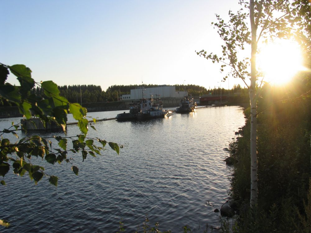 Kuurna hydroelectric power plant, Pielisjoki, Kontiolahti, Finland